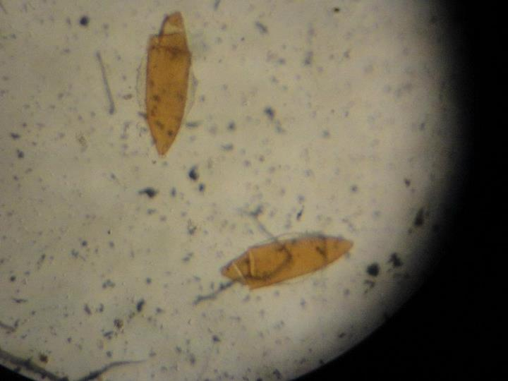 Anopheles mosquito egg